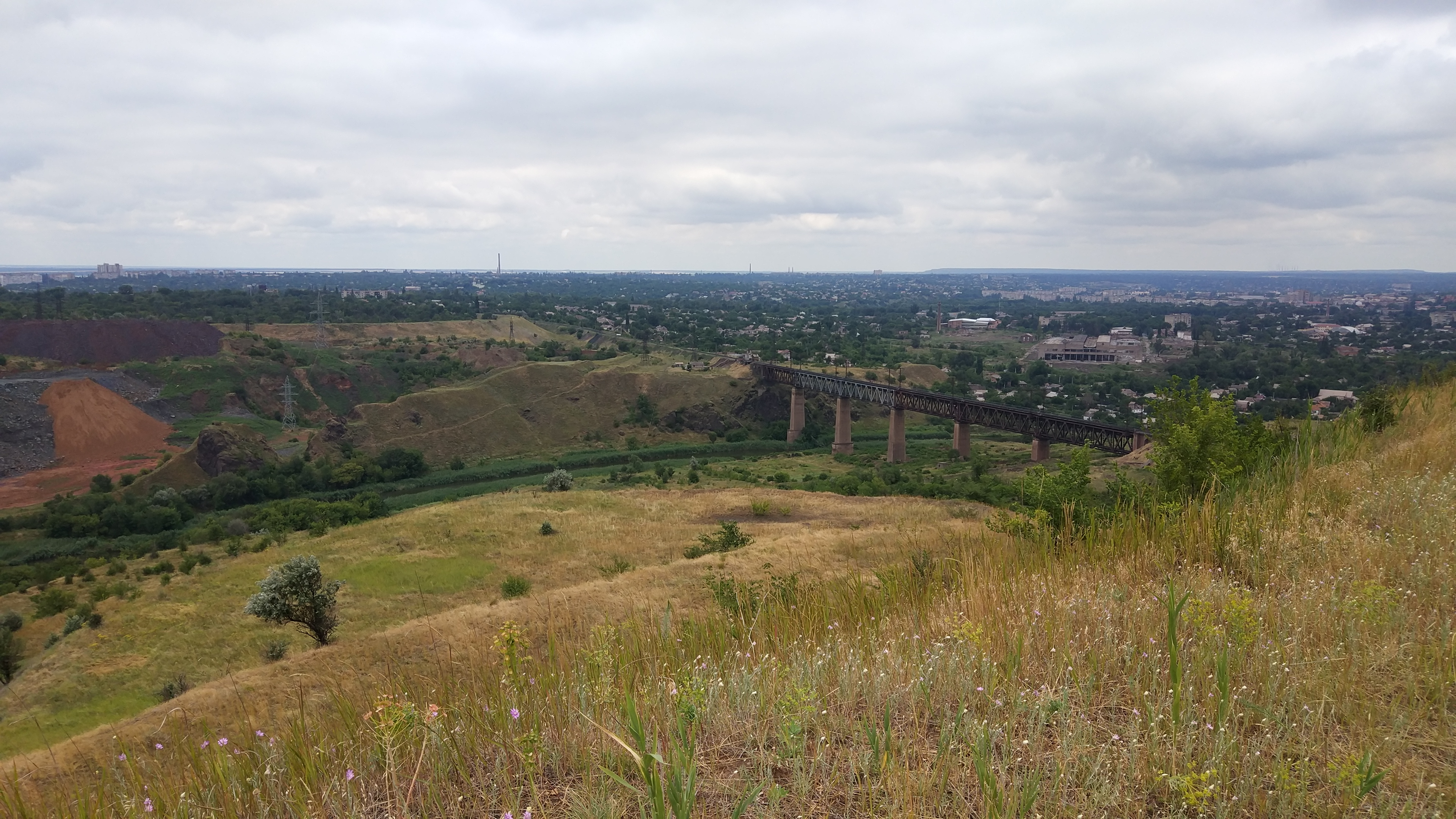 Railway bridge across Ingulets river, designed by Apollon Belelyubsky, Kryvyi Rih, Dnipropetrovsk Oblast, Ukraine